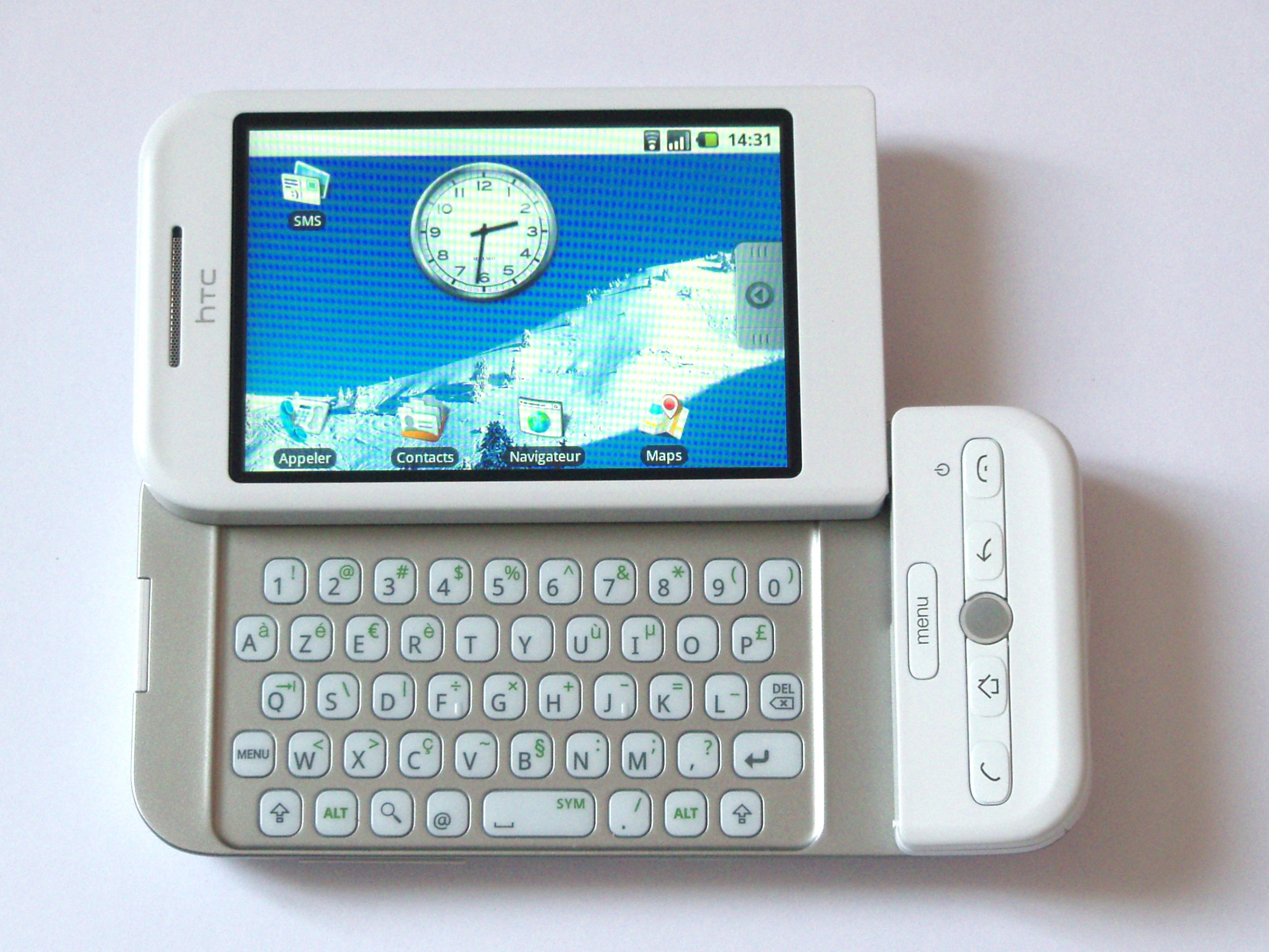 HTC Dream mobile phone with AZERTY keyboard for French market.